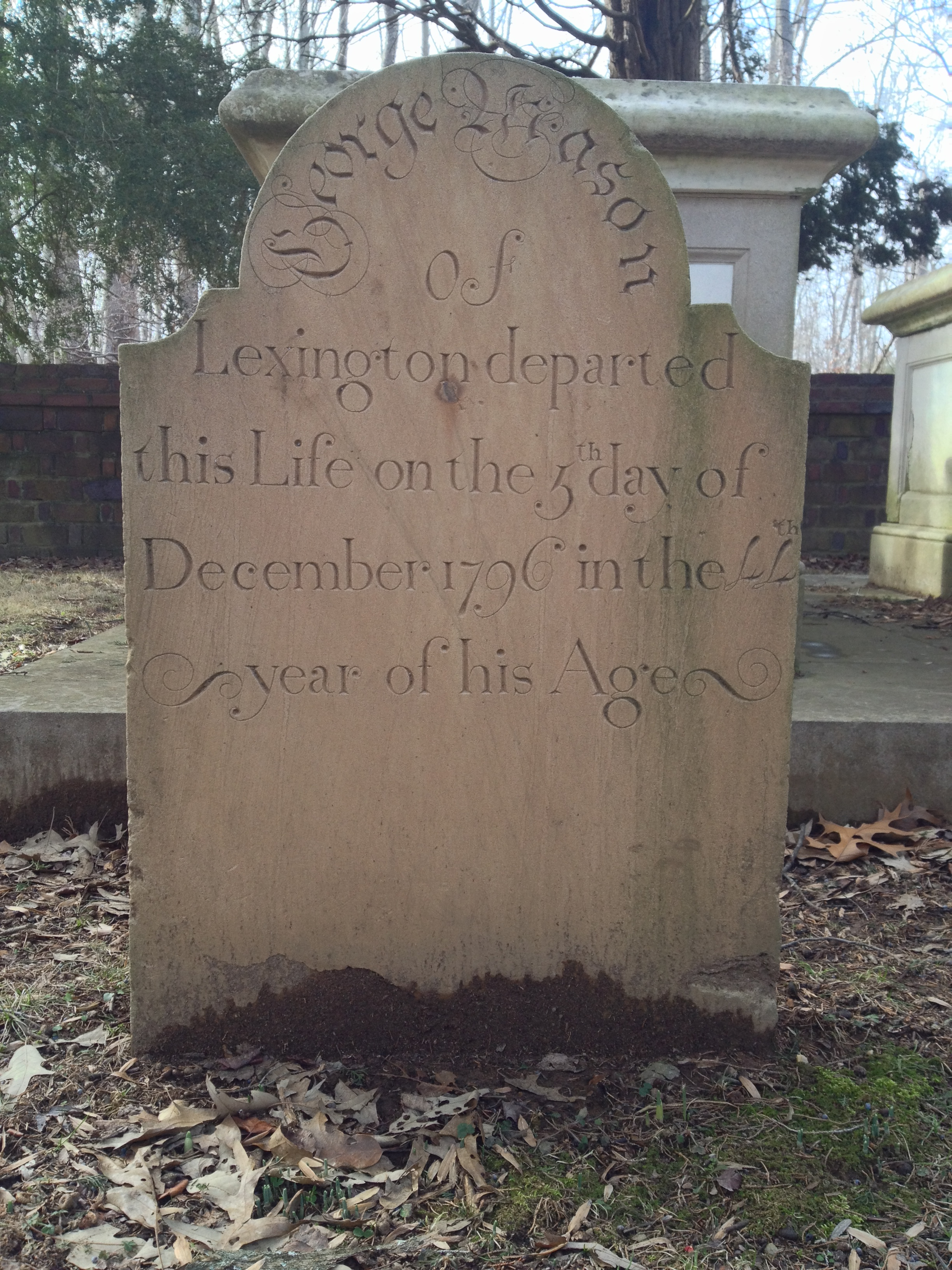 Gunston Hall, photographed on February 2, 2014.